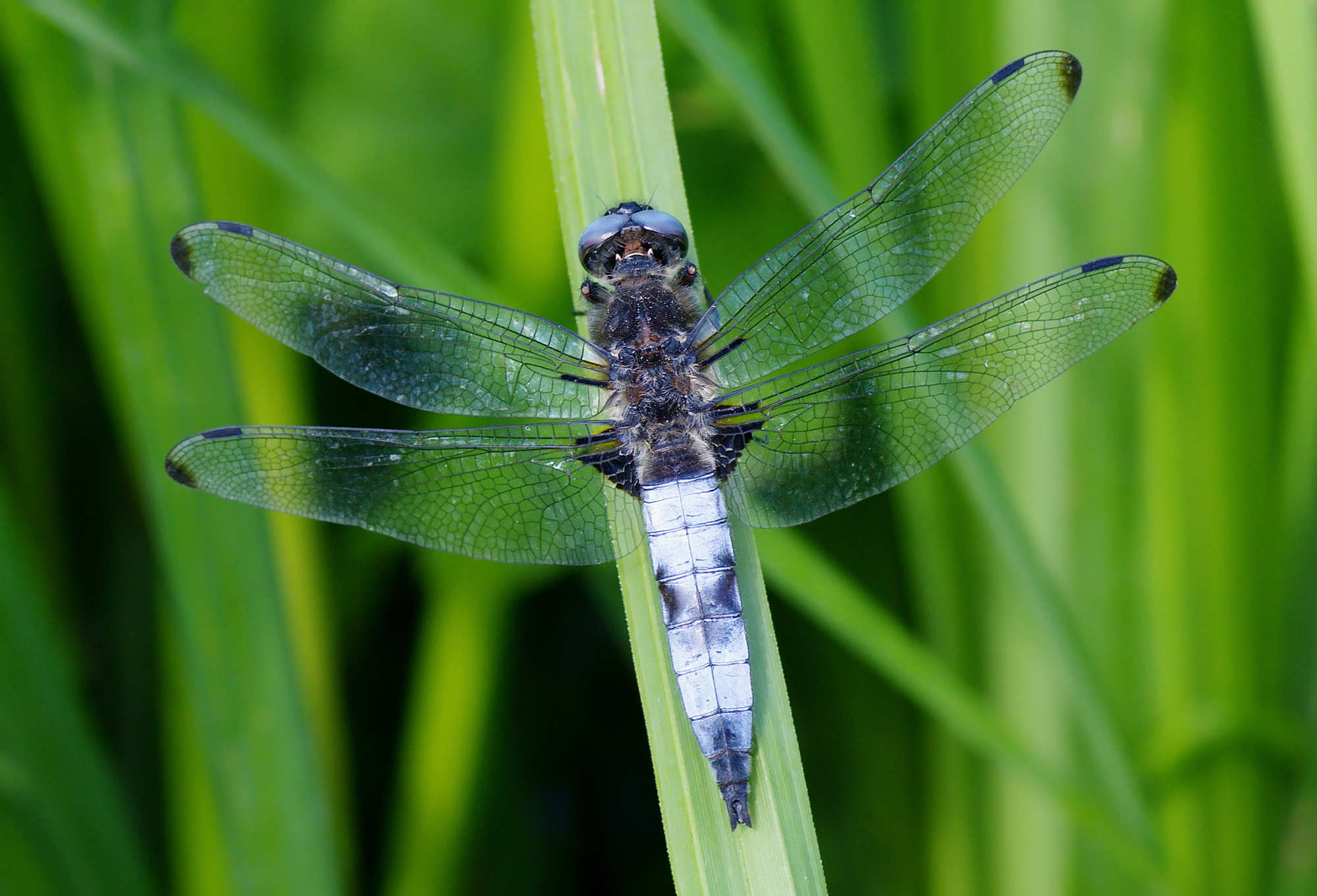 Adult male Scarce Chaser (Libellula fulva). Note the clearly visible spotting on the wing tips of this dragonfly (for males sometimes only weak or maybe totally absent).